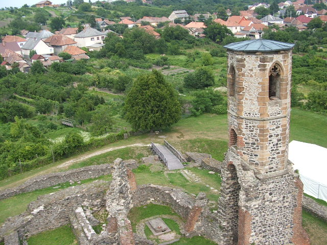 View from the castle tower in Kisnána, Hungary.